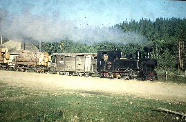 Train CFF in Comandau (Romania)- upper station.